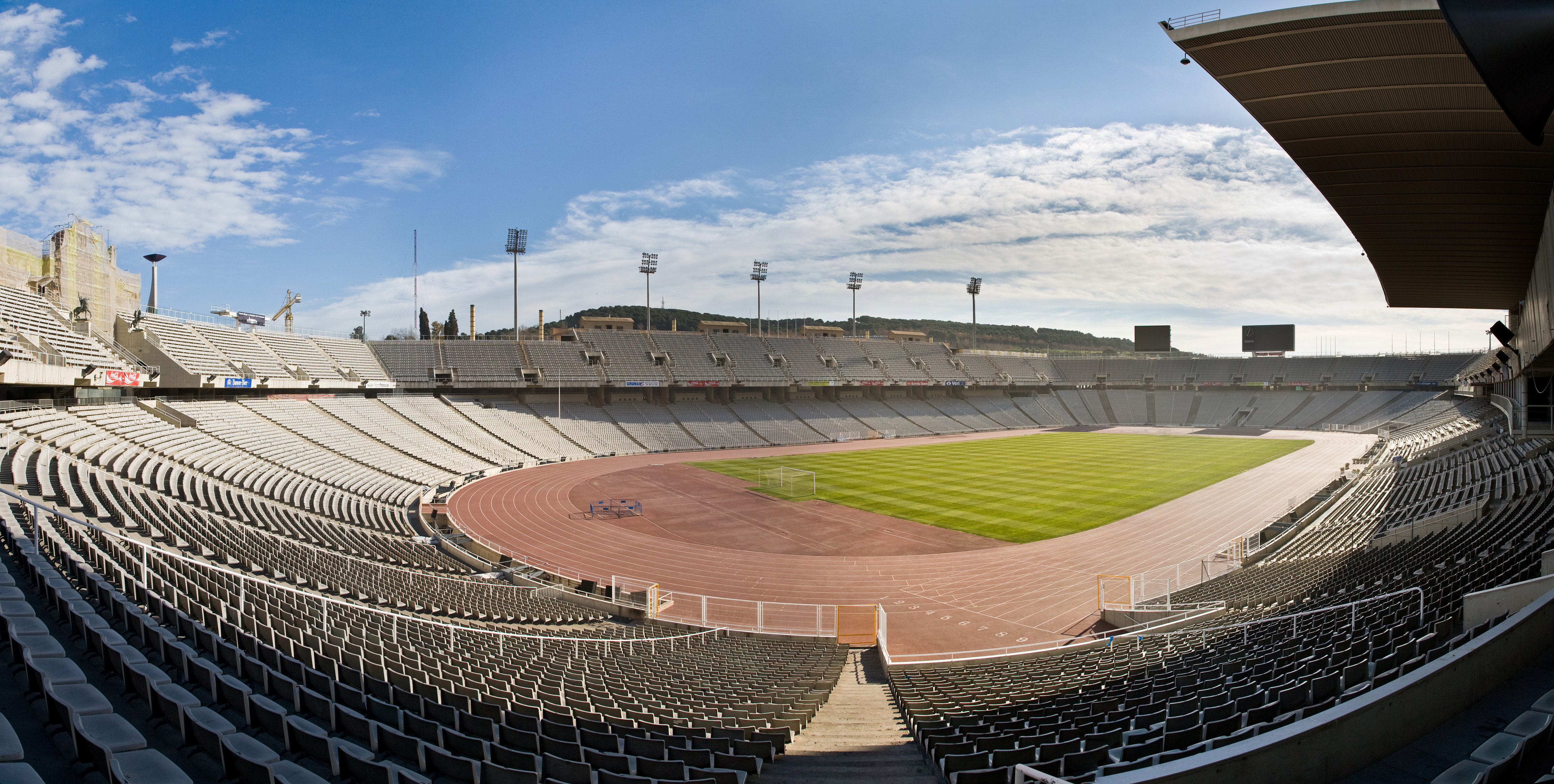 A four segment panoramic image of the Estadi Olímpic Lluís Companys in Barcelona, Spain. Taken by myself with a Canon 5D and 24-105mm f/4L lens.